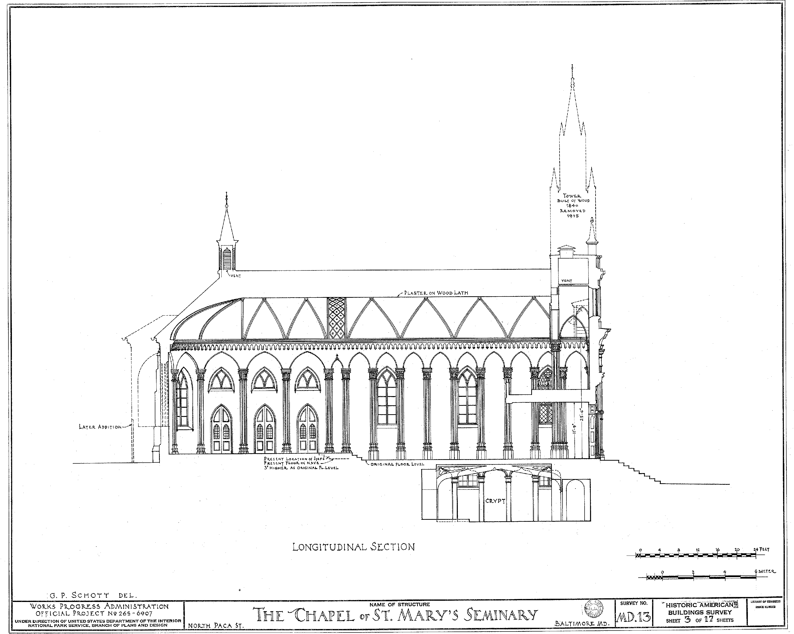 Works Progress Administration/HABS longitudinal section of St. Mary;s Seminary Chapel, Maximilian Godefroy, architect, Baltimore, Maryland